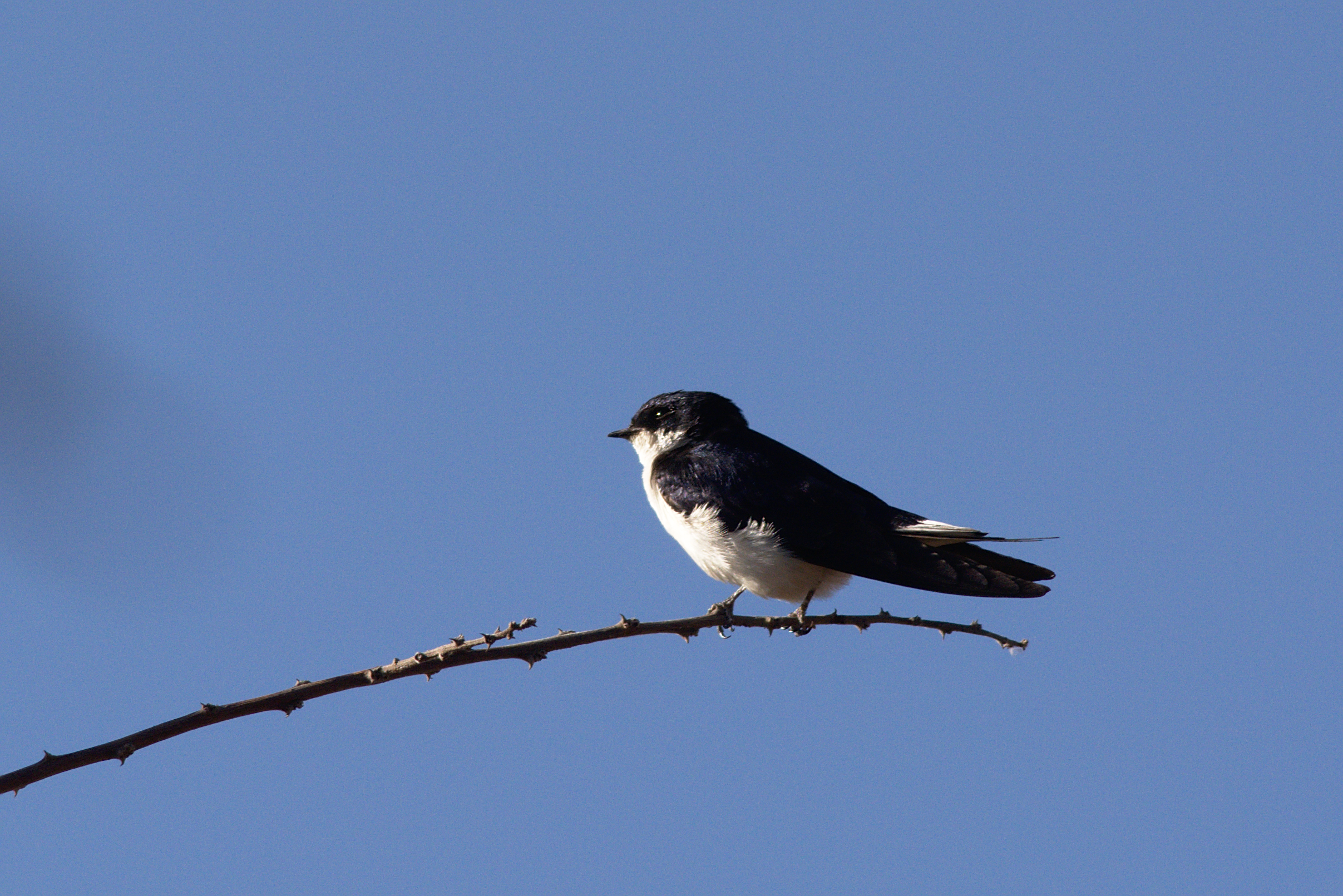 White-tailed Swallow (Hirundo megaensis), Mega, Ethiopia